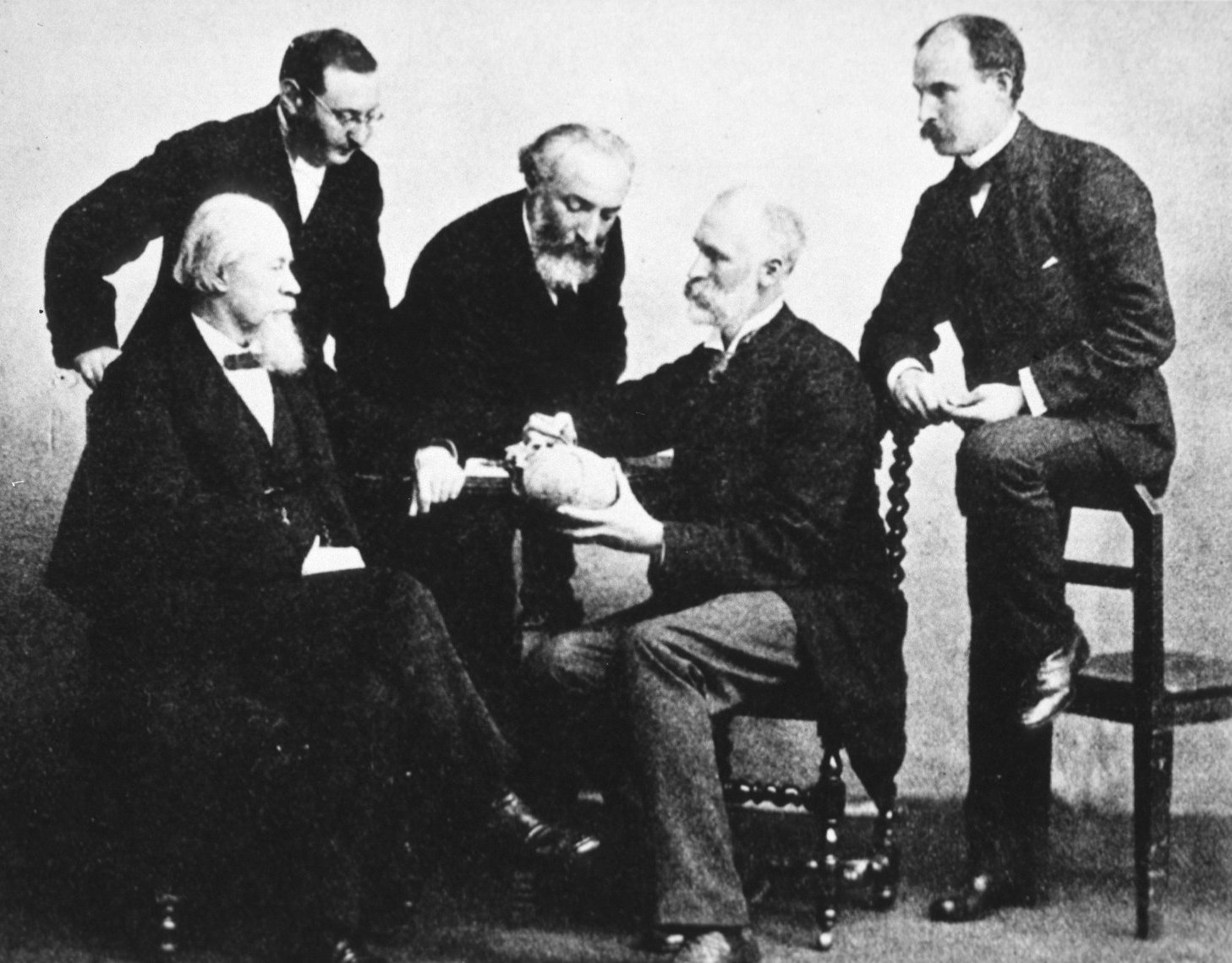 William Macewen (1848-1924) demonstrating his triangle to a group which includes Lane, Hirschfelder, Barkan, Stillman.